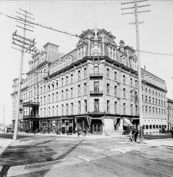 The Russell House Hotel on the southeast corner Sparks Street and Elgin Street. Ottawa, Ontario, Canada.